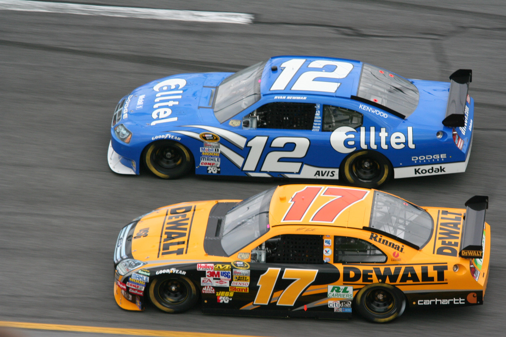 Ryan Newman & Matt Kenseth compete at the 2008 Daytona 500 Race, Ryan Newman & Matt Kenseth compete at the 2008 Daytona 500 Race Location: Daytona Beach